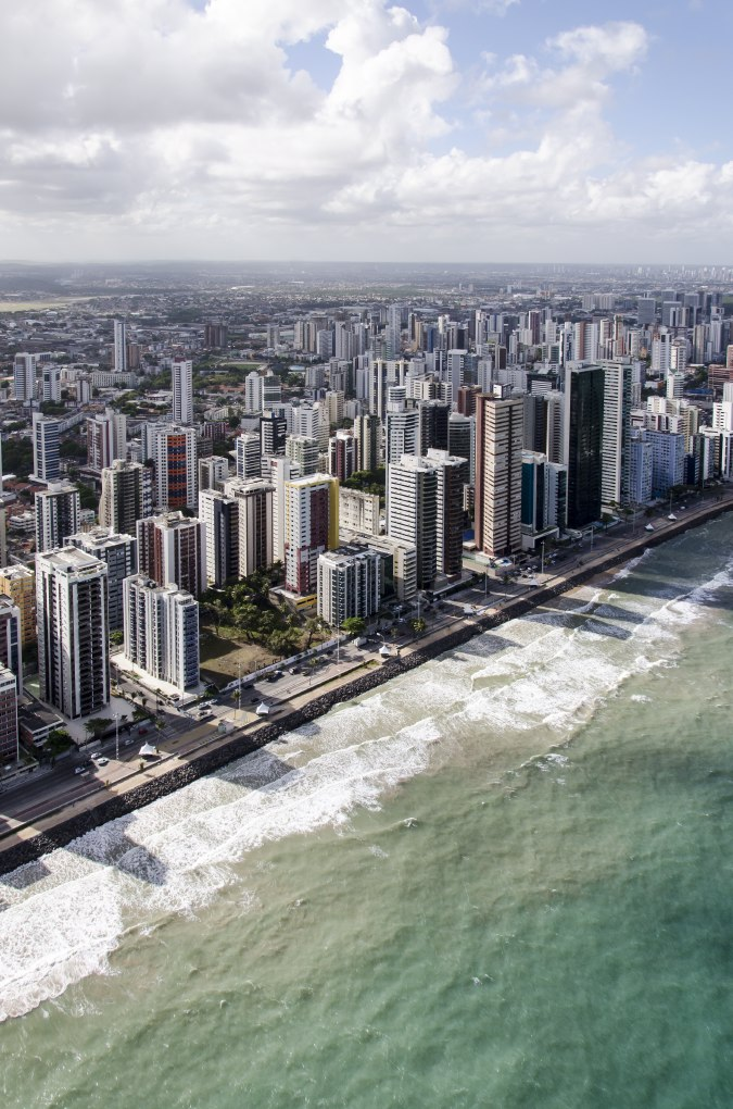 Boa Viagem Beach - Recife - Pernambuco - Brazil